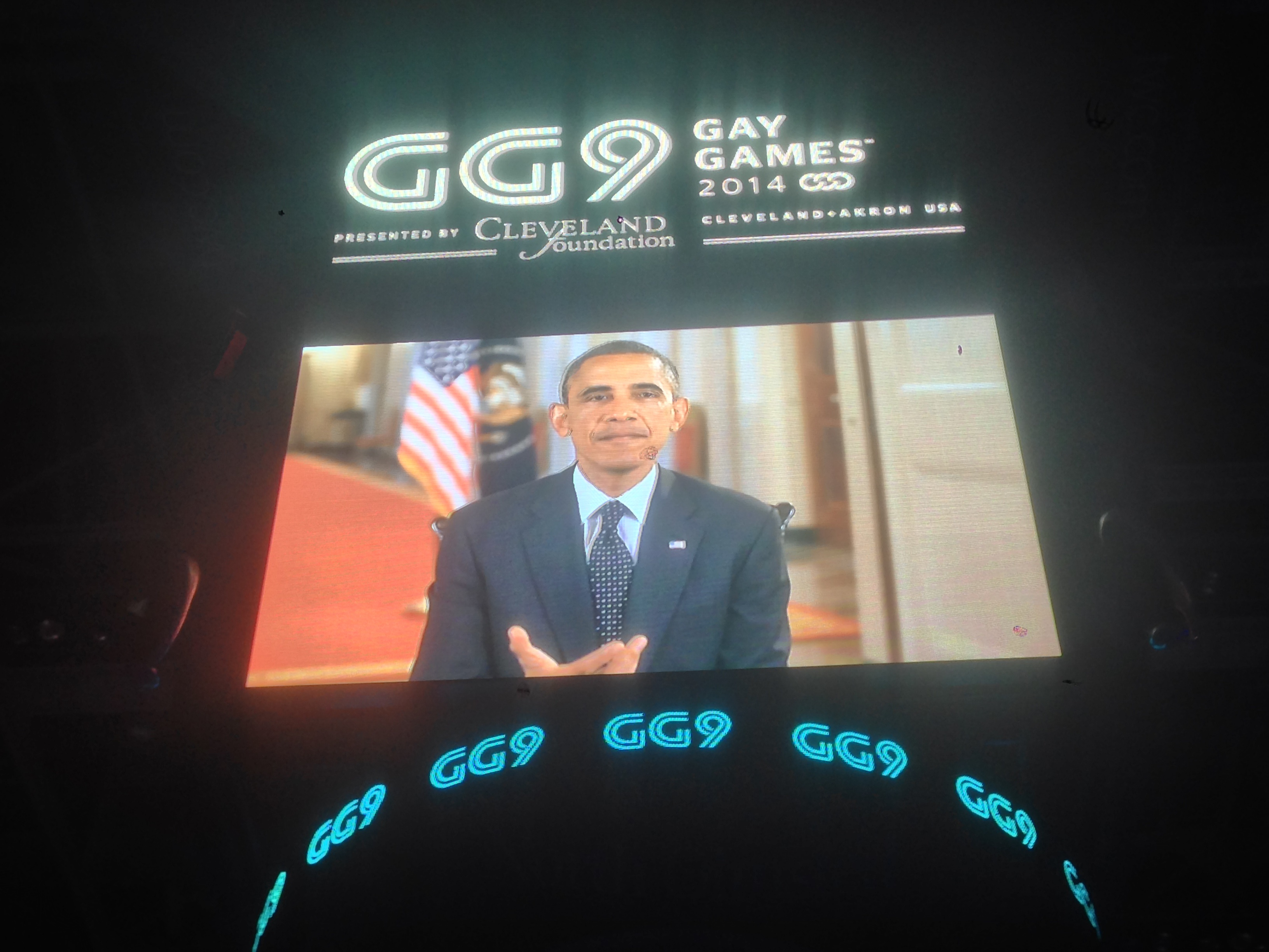 Gay Games Opening Ceremonies (8/9/14)